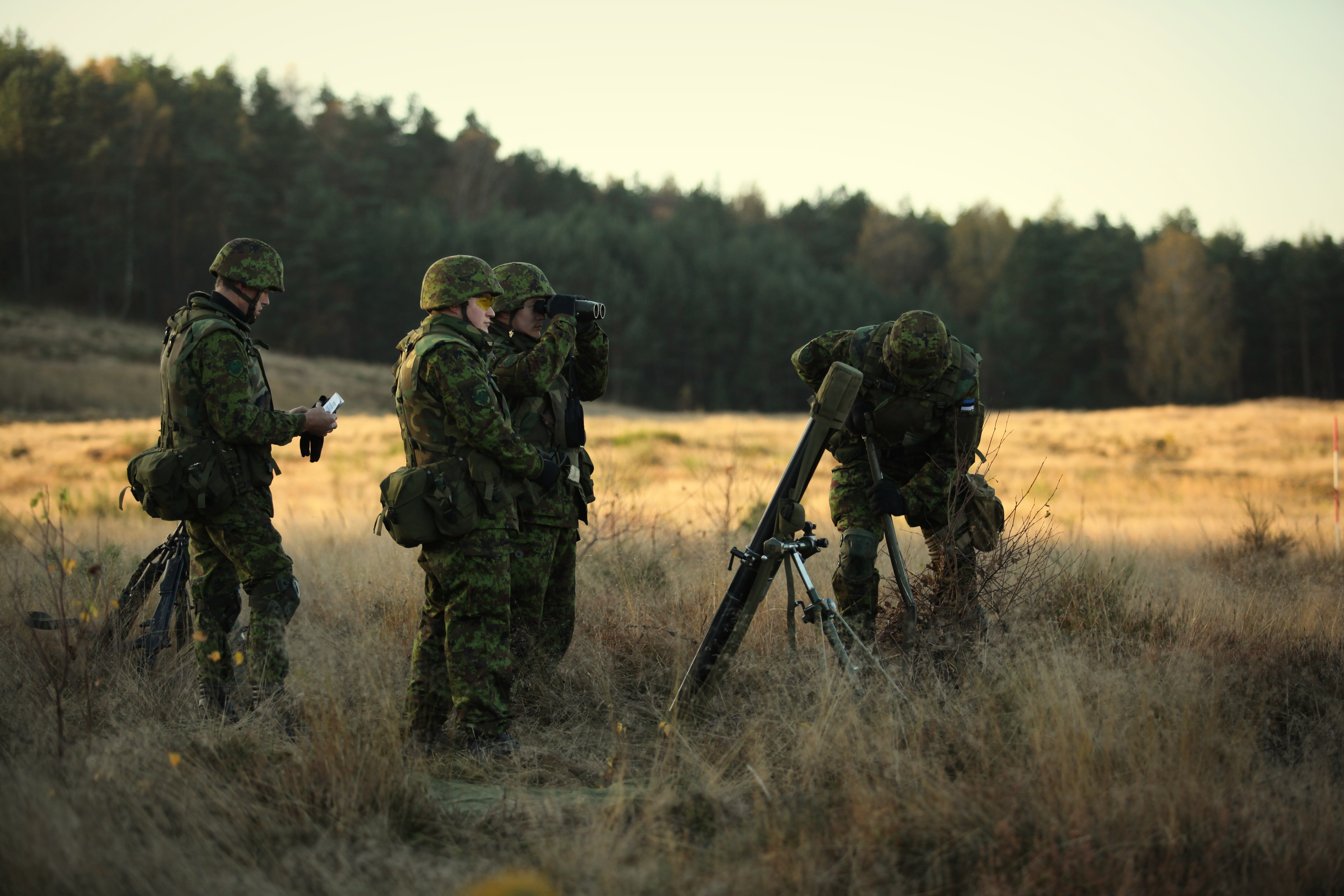 Kaitseliidu miinipildujarühm õppusel Steadfast Jazz